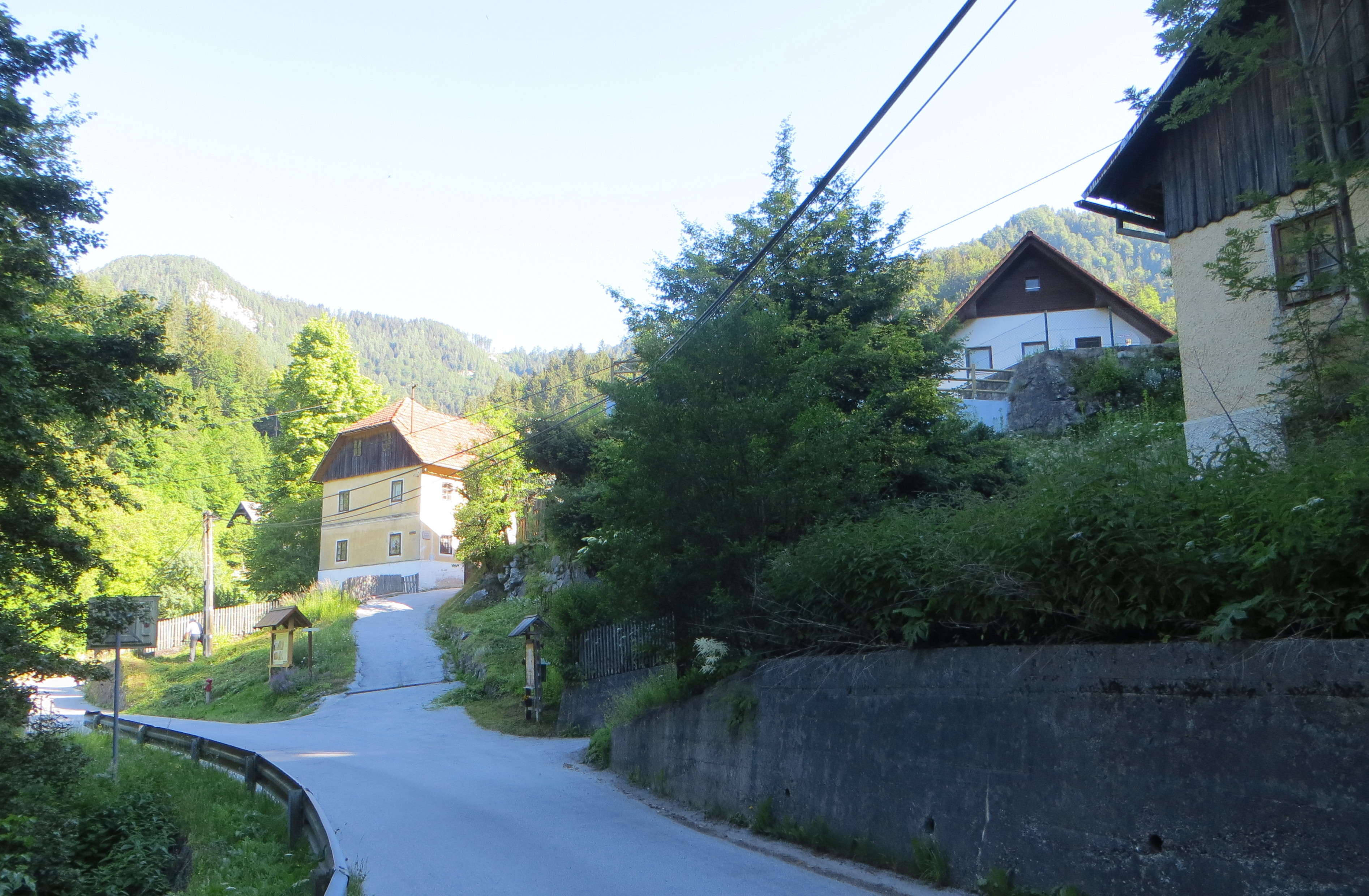 Dolina, Municipality of Tržič, Slovenia